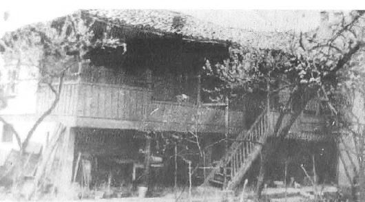 Stoyan Tzagarski house in Orkhanie, second half of XIX century